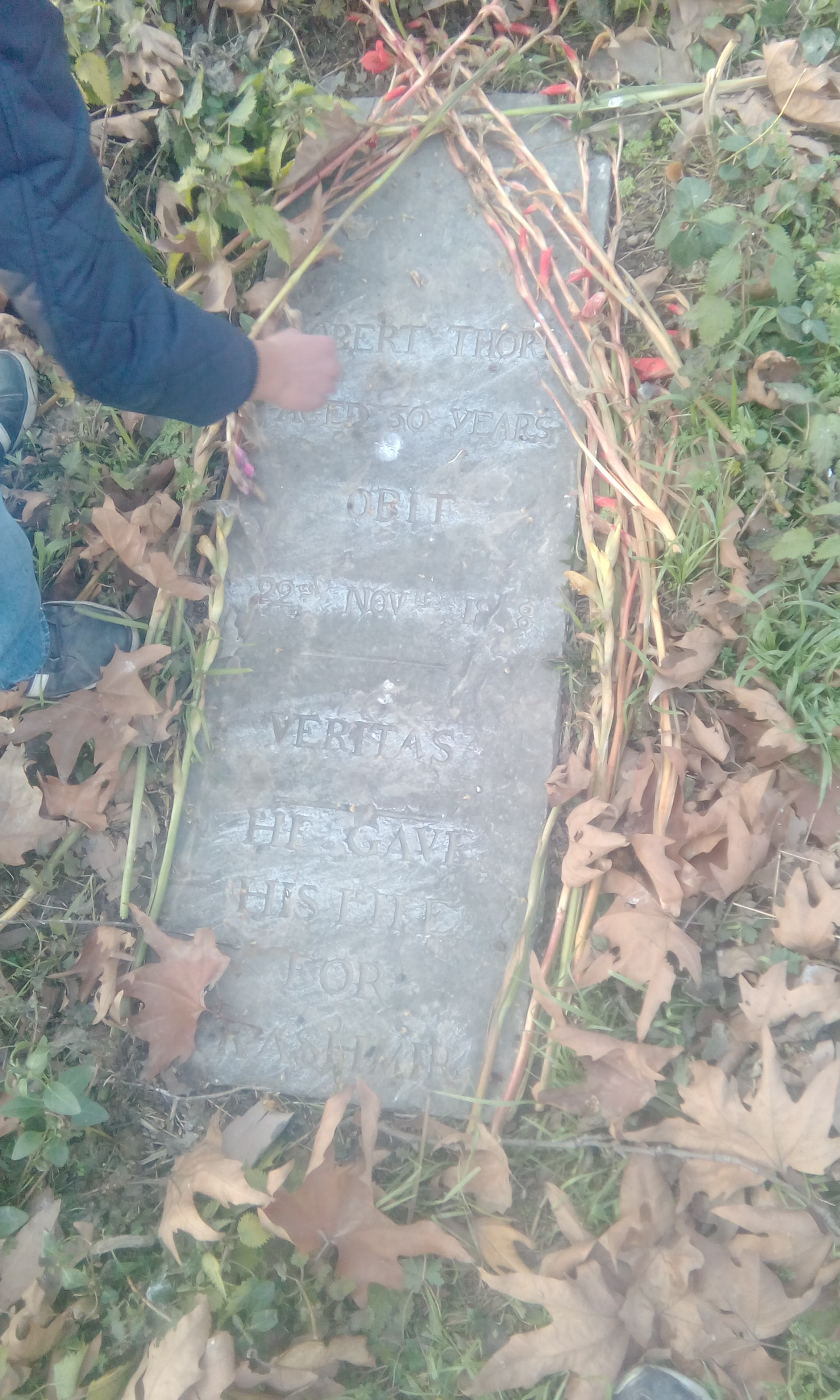 Grave of Robert Thorpe in Sheikh Bagh, Srinagar